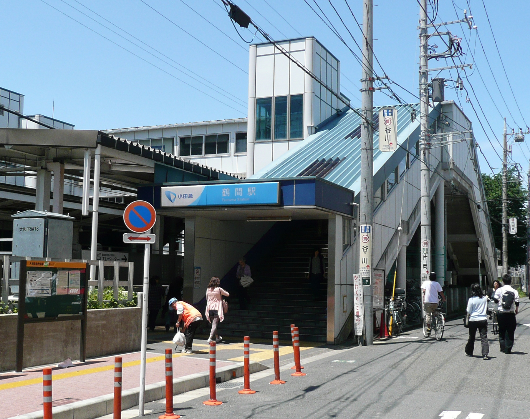 East Entrance of Tsuruma Station